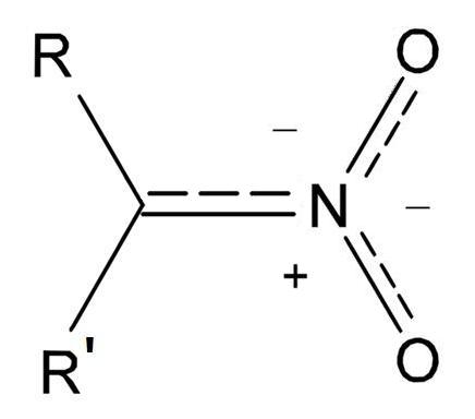 nitronate risonance